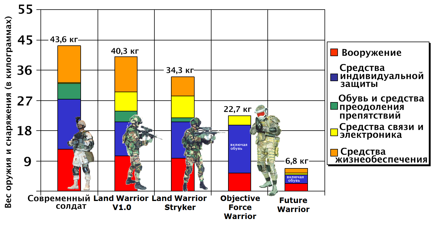 Evolution of Soldier-borne Load chart